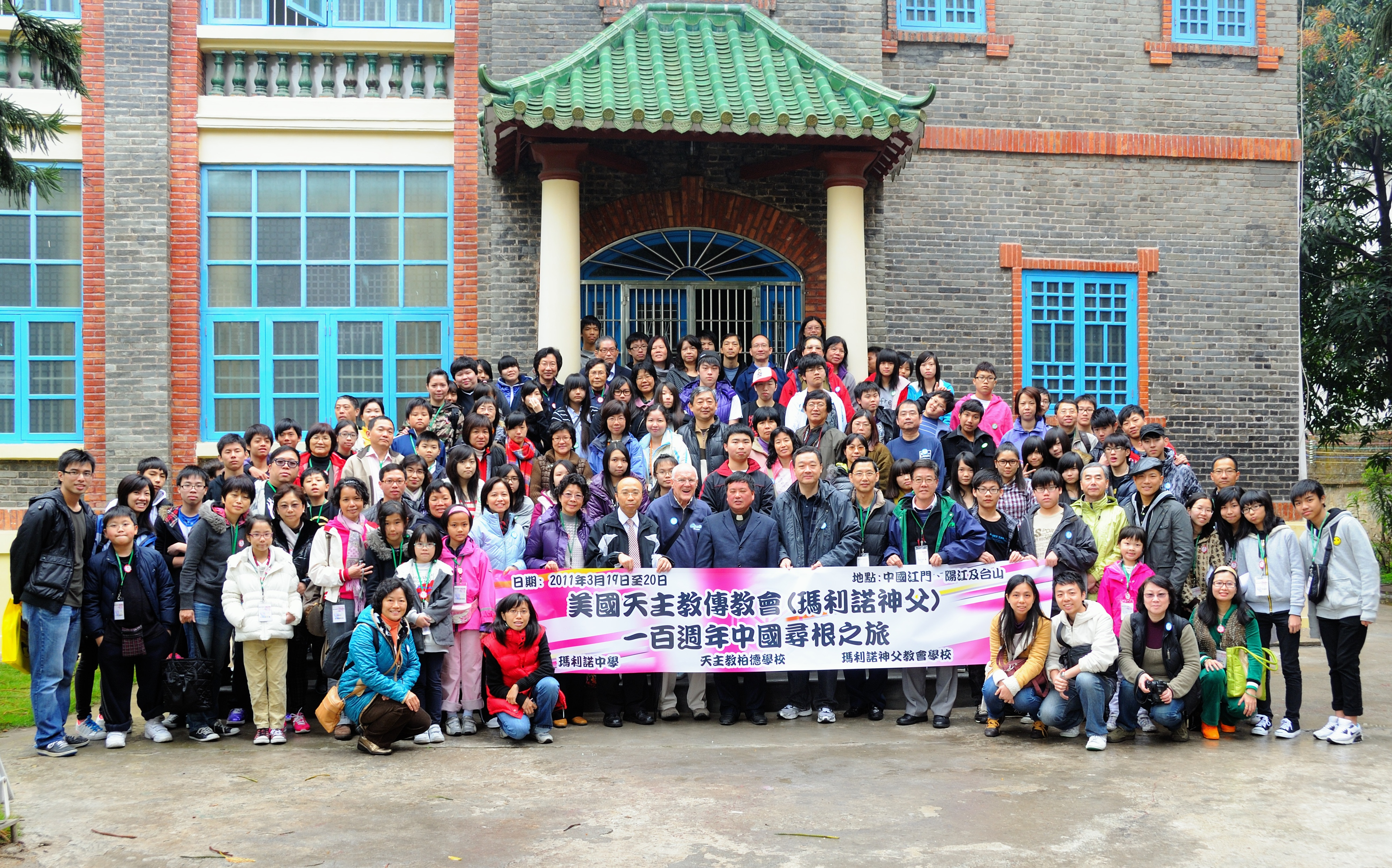 Students from 5 Maryknoll schools in Hong Kong visiting Immaculate Heart of Mary Cathedral in Jiangmen